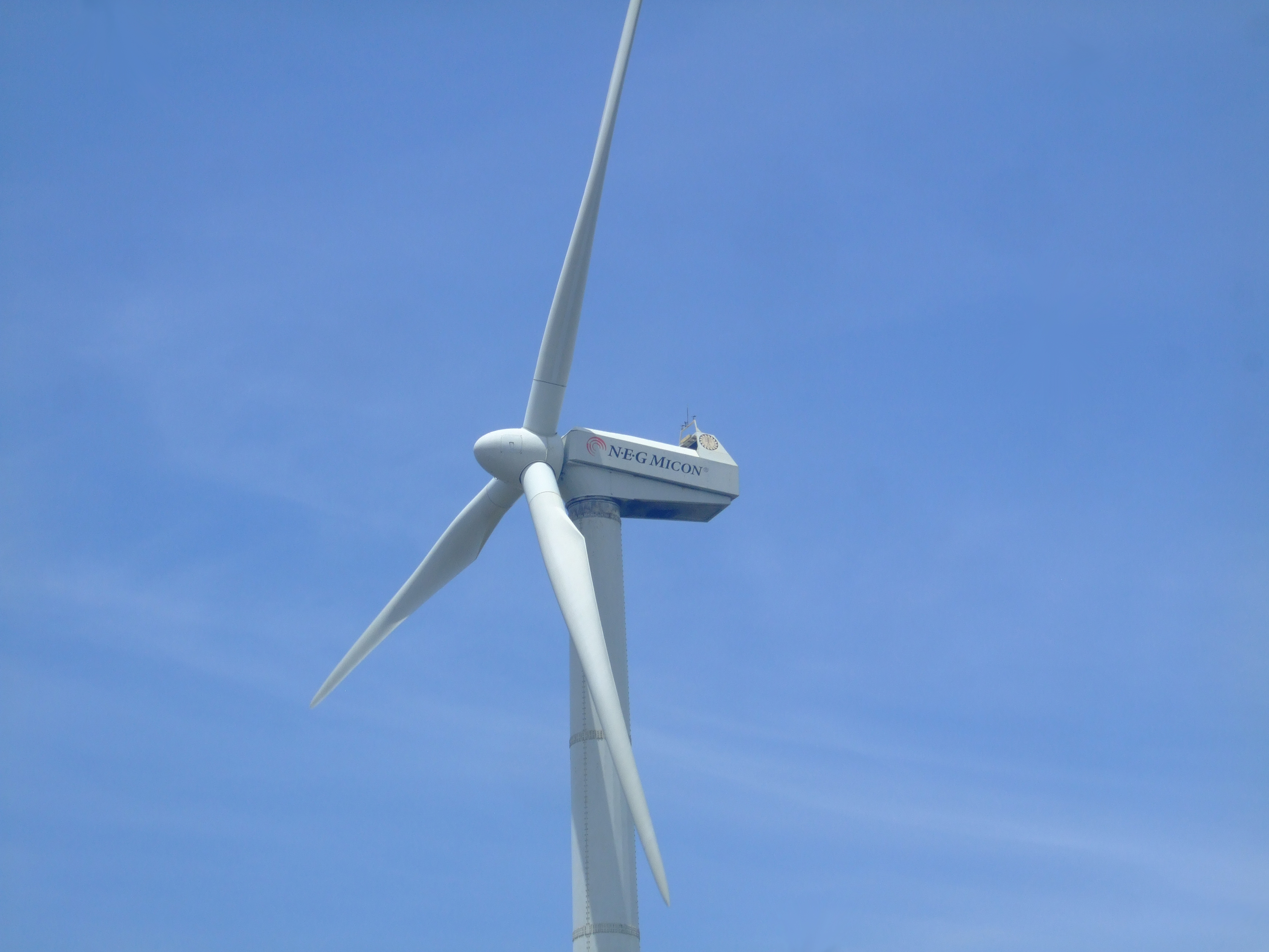 A NEG Micon M1500-600 wind turbine at the Hambantota Wind Farm in Sri Lanka.